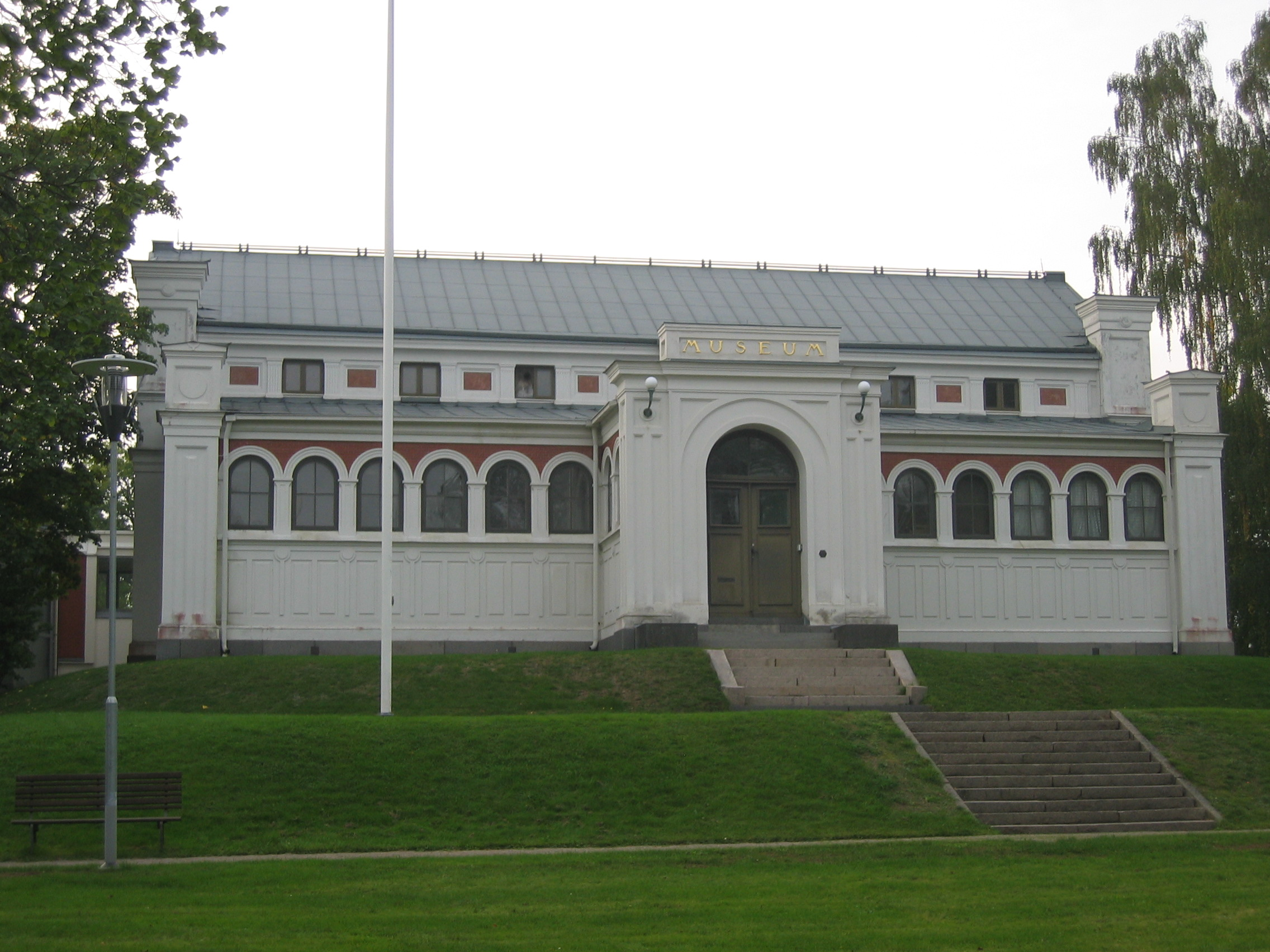 Smålands museum, old building, in Växjö, completed 1885 according to drawings by F W Scholander